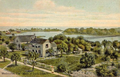 View of Crane Creek Melbourne, Florida